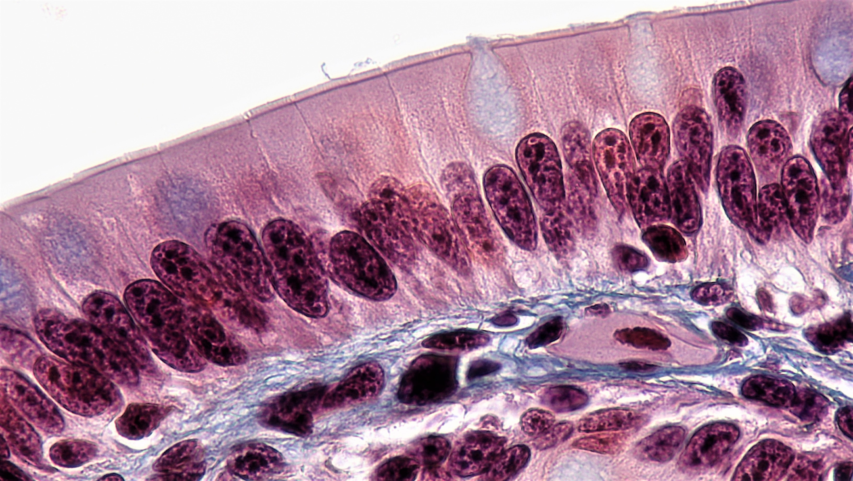 cross section: mammalian gut magnification: 400x